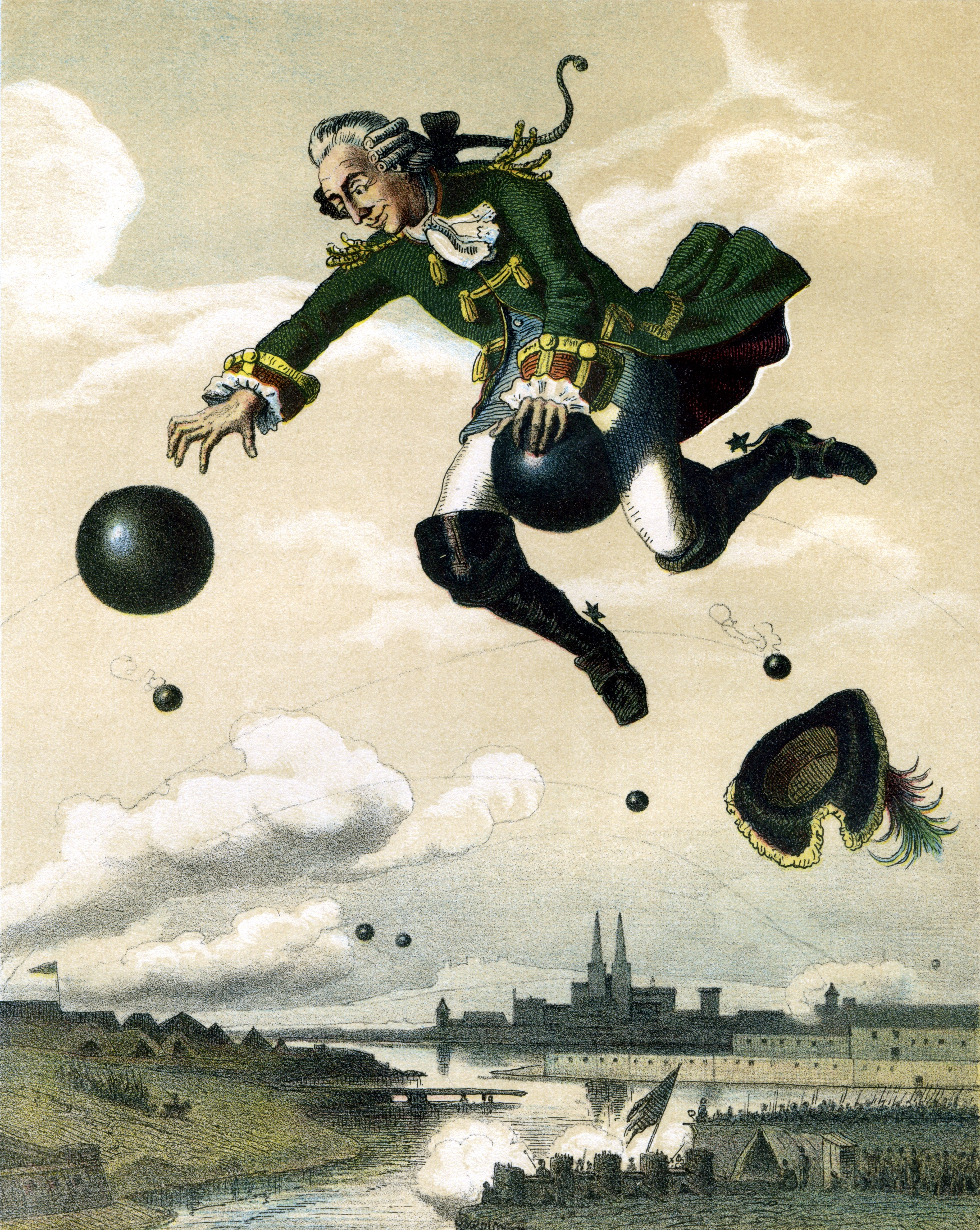 Baron von Münchhausen's flight on a cannonball.